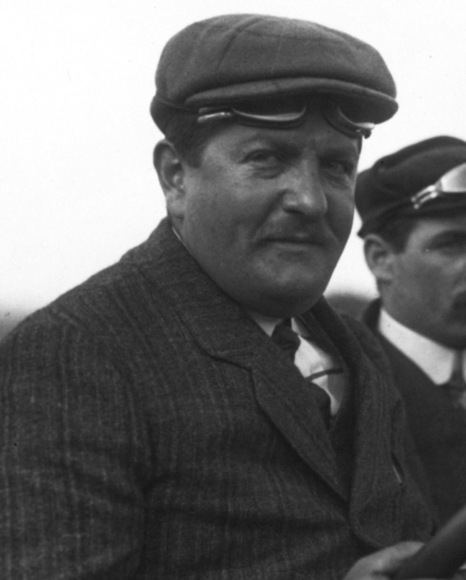 Léon Théry in his Brasier at the 1908 French Grand Prix at Dieppe.